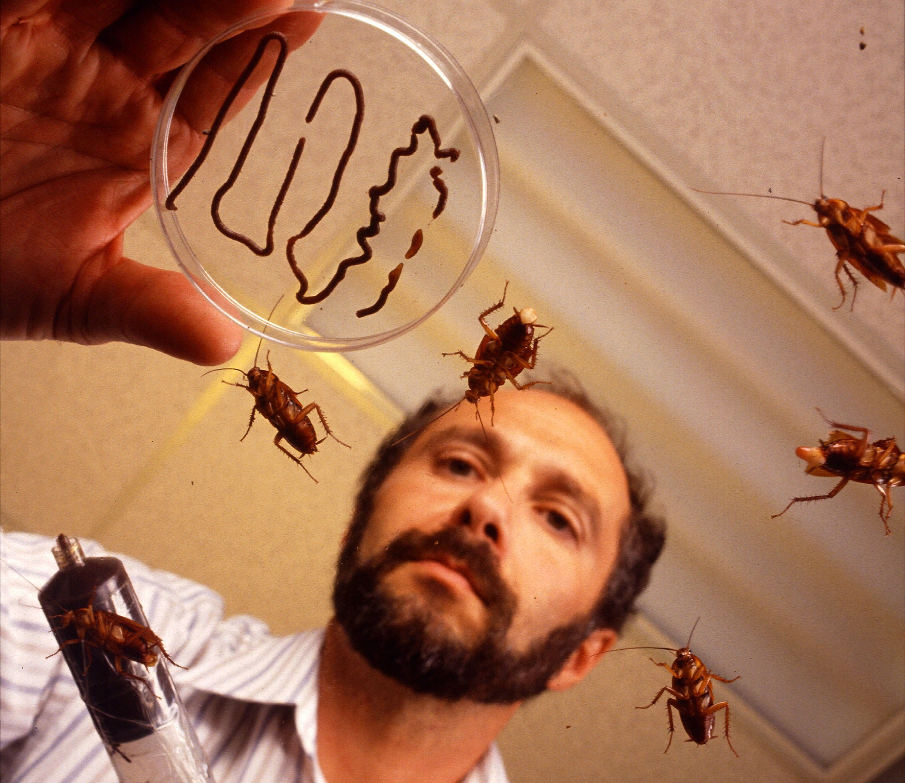 A tough and wily adversary, the cockroach has survived countless attempts to curb its domain and lifestyle. Here, ARS entomologist Richard Brenner loads a petri dish with an experimental bait to see if American cockroaches, Periplaneta americana, are susceptible to its allure. Photo by Keith Weller. [1] ==